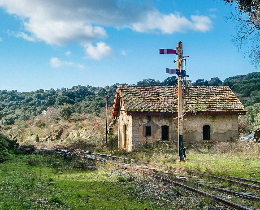 Former train station building of La Fregeneda train station